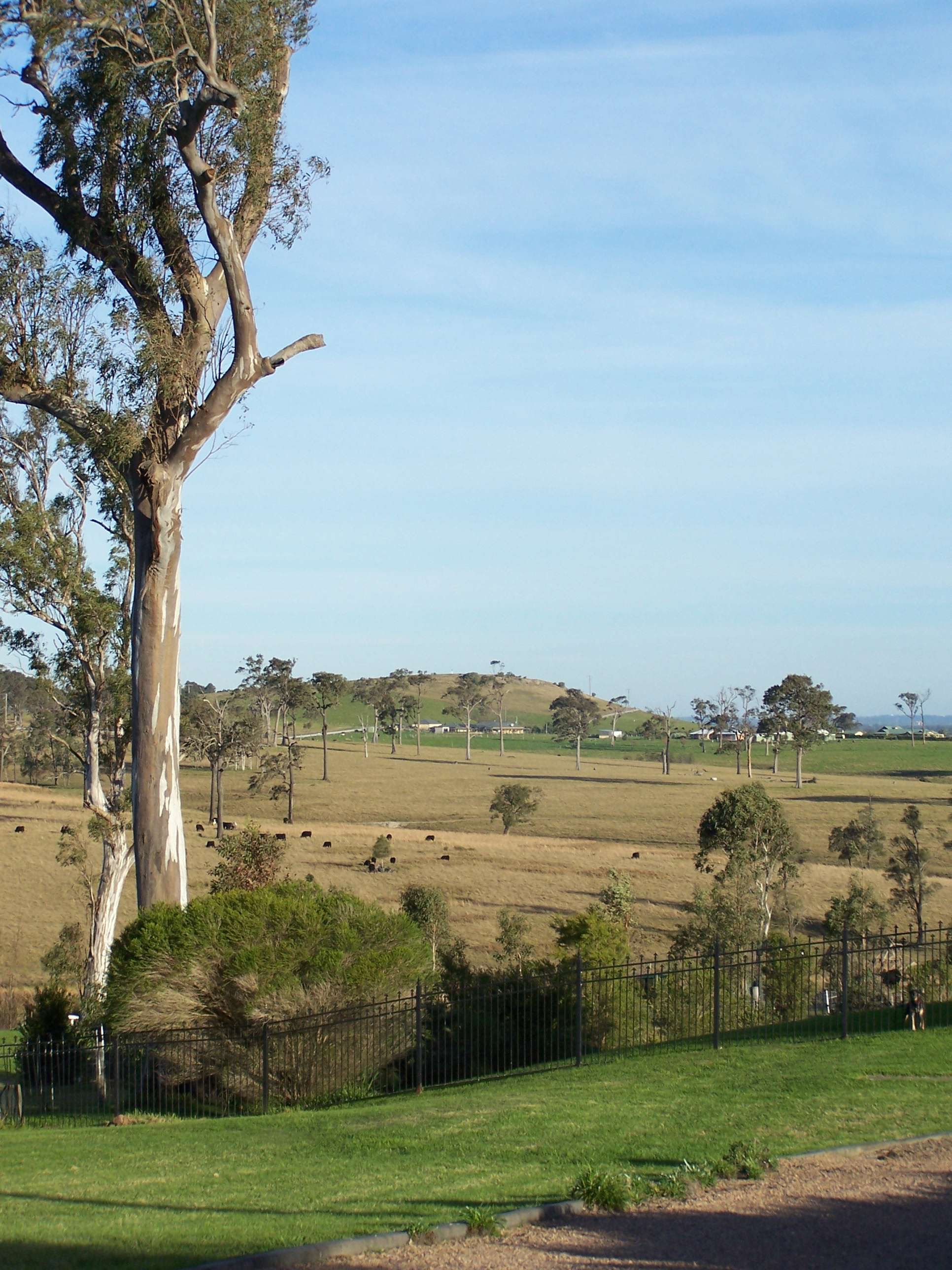 Grazing land in Brandy Hill, looking towards Osterley